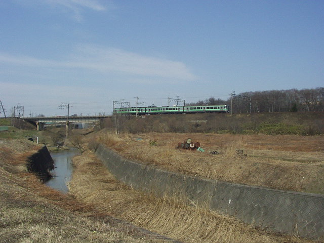 Chitose Line of Hokkaidō Railway. Kitahiroshima, Hokkaidō, Japan.